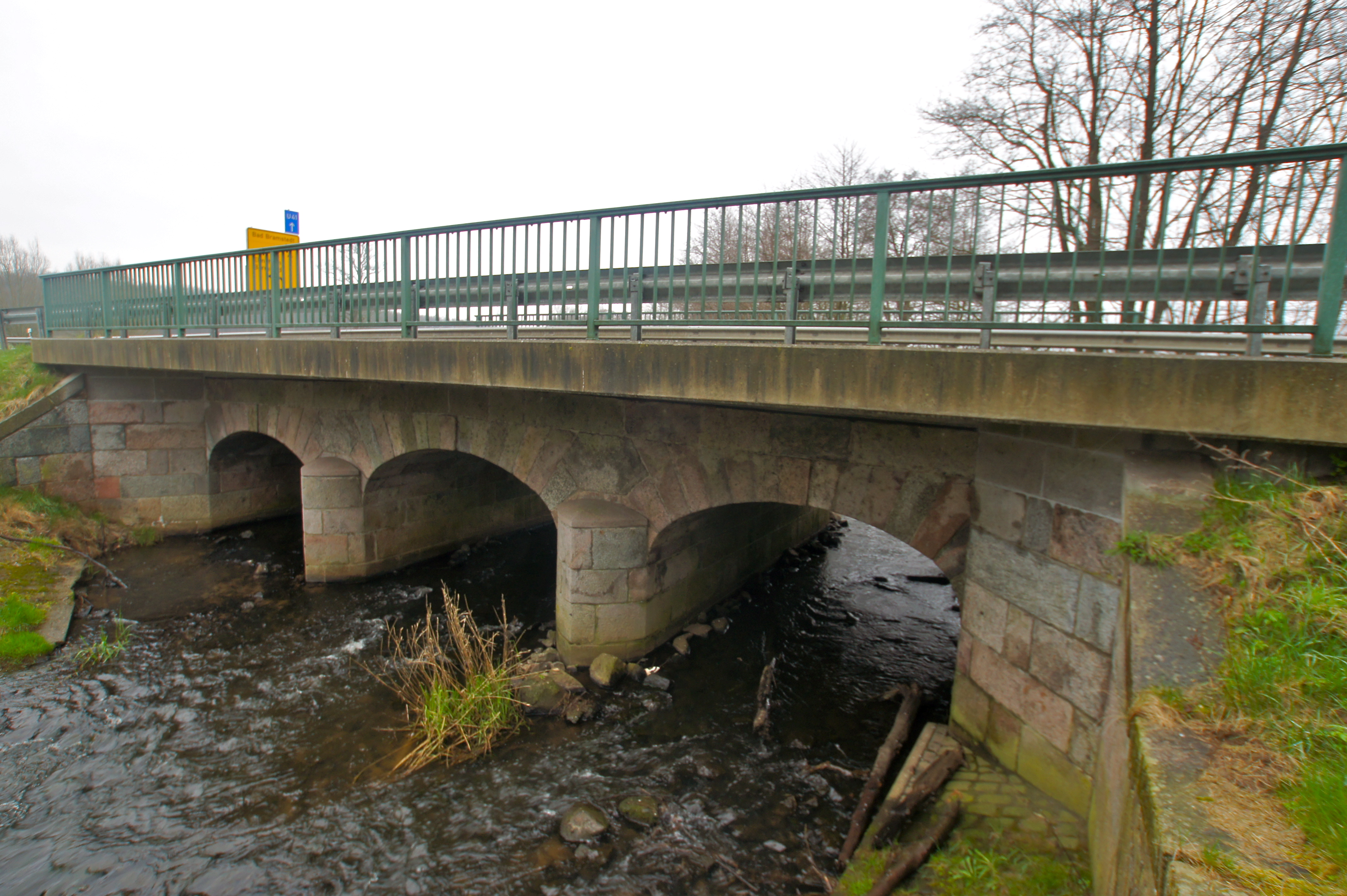 Bilsen, Catalonia: The bridge over the Pinnau at the Kieler Chaussee